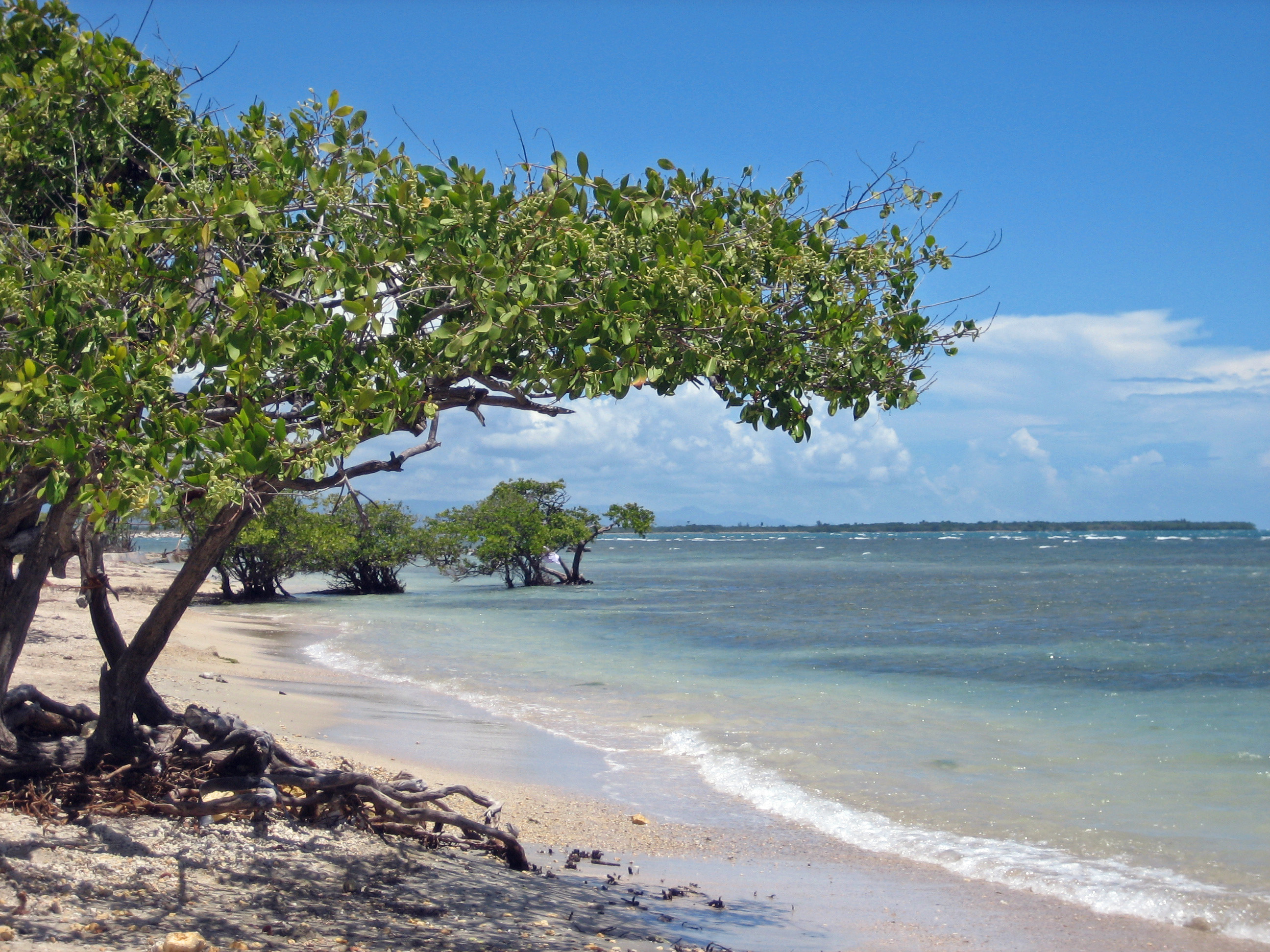 Ponce (Puerto Rico) Beach by La Guancha Boardwalk